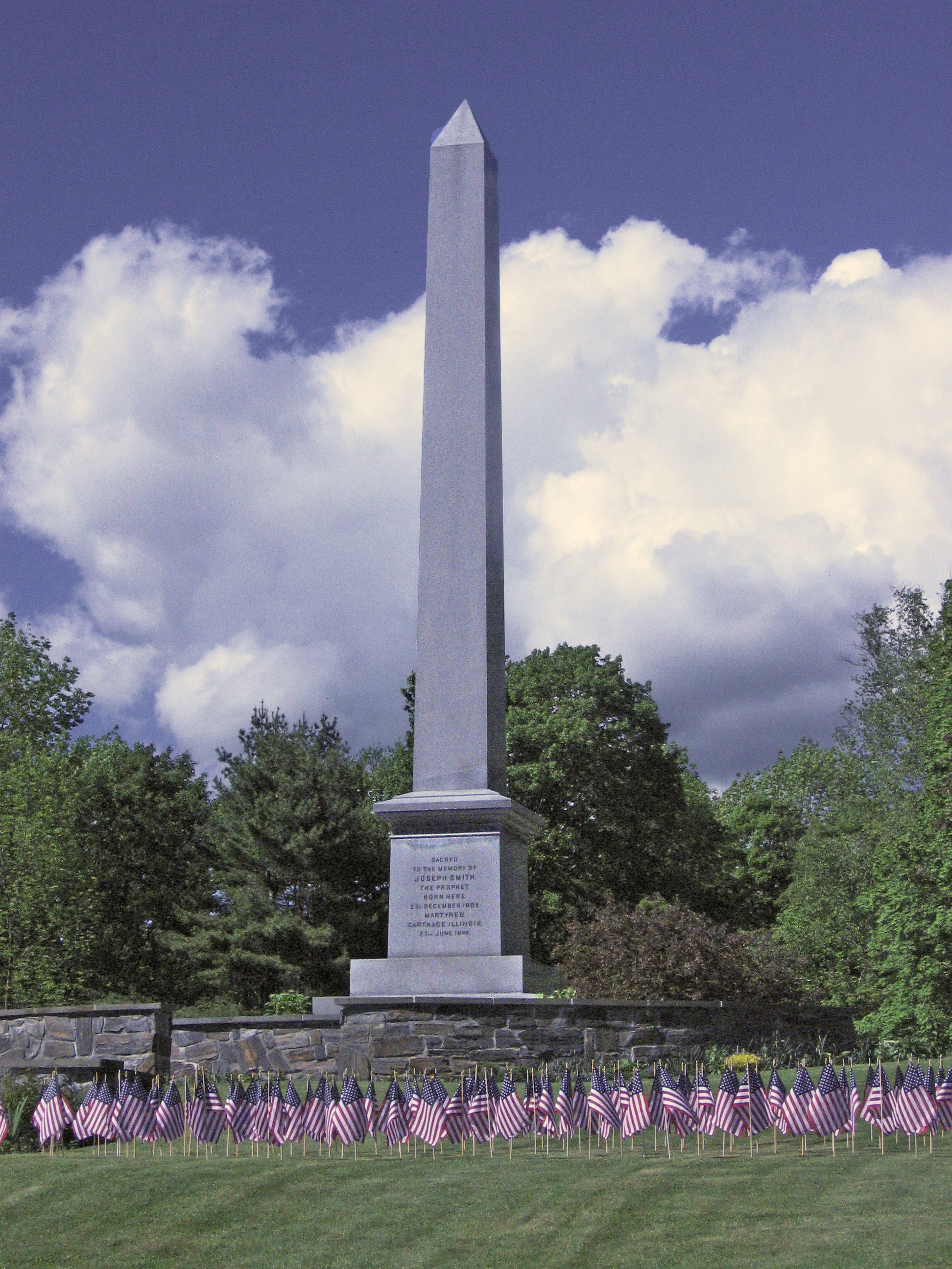 Granite obelisk marking the birthplace of Joseph Smith, Jr.